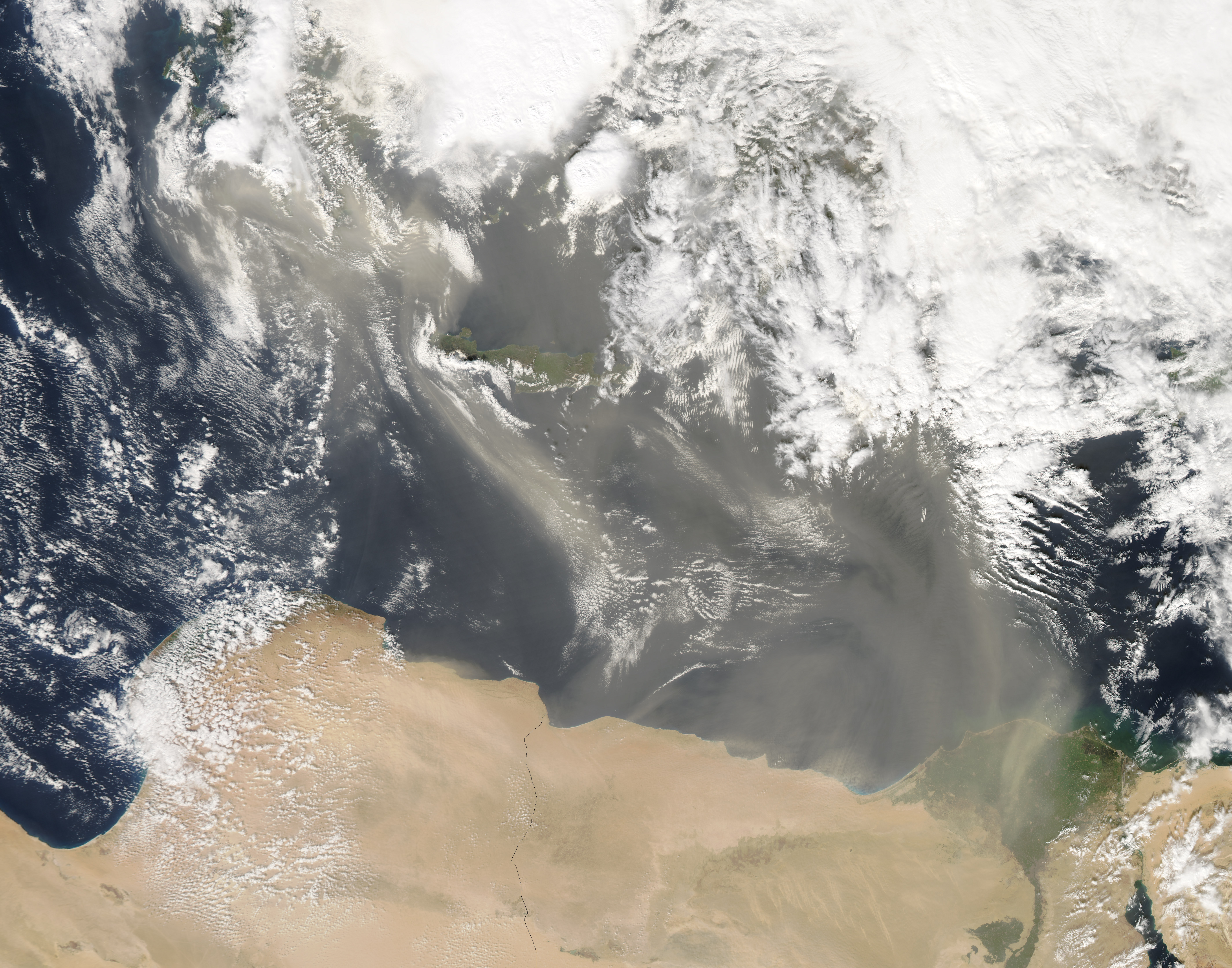 Saharan dust blew over the Mediterranean Sea in late February 2013. The Moderate Resolution Imaging Spectroradiometer (MODIS) on NASA’s Aqua satellite took this picture on February 22. Most of the dust blew off the coast of Egypt, partially obscuring the satellite sensor’s view of the Nile Delta. An especially thick river of dust stretched northward past the Greek island of Kriti (Crete). In the north, the dust encountered cloudbanks.